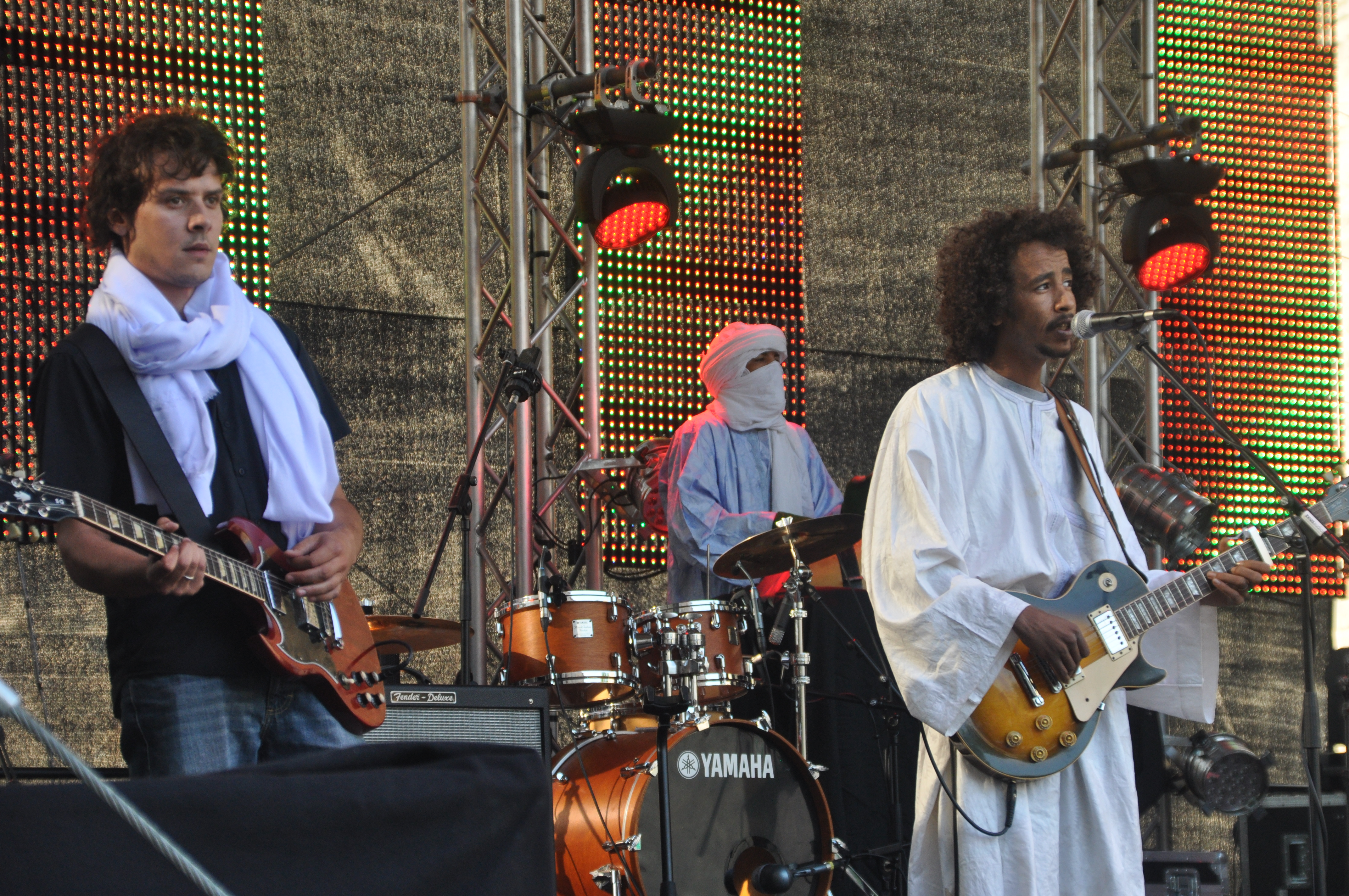 Tamikrest (Mali), appearence at the 11th world music festival "Horizonte" 2013 at the fortress Ehrenbreitstein, Koblenz, Germany